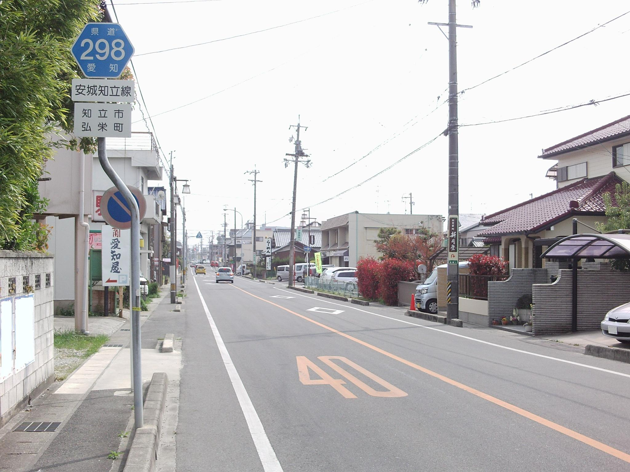 Aichi prefectural road No.298 in Koeicho, Chiryu, Aichi.